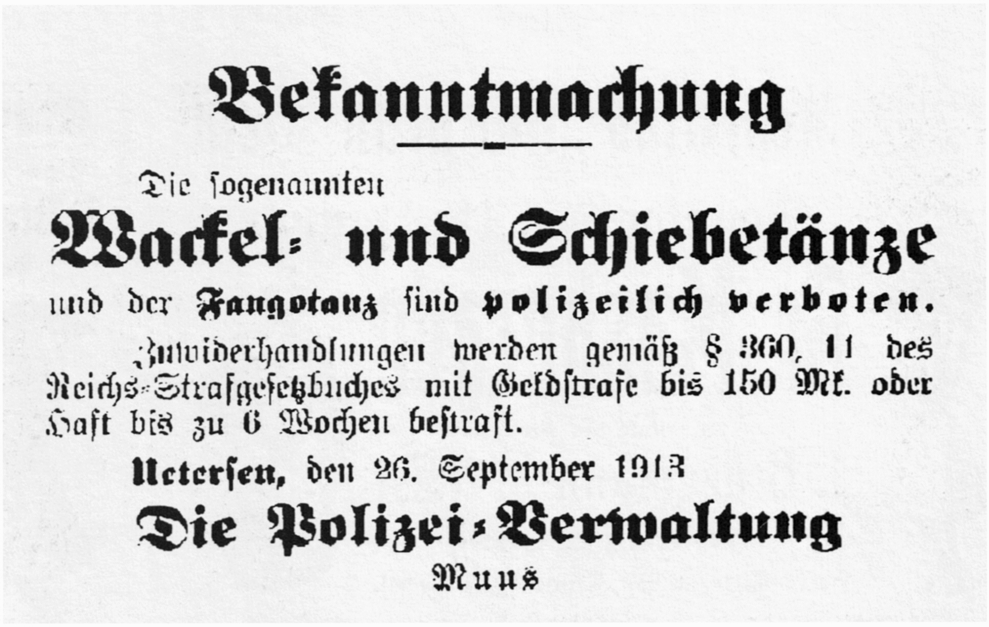 Newspaper Statement "Ban on wiggling and shifting dances on September 26th 1913